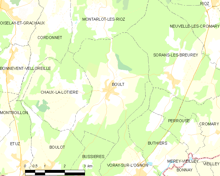 Map of French municipality